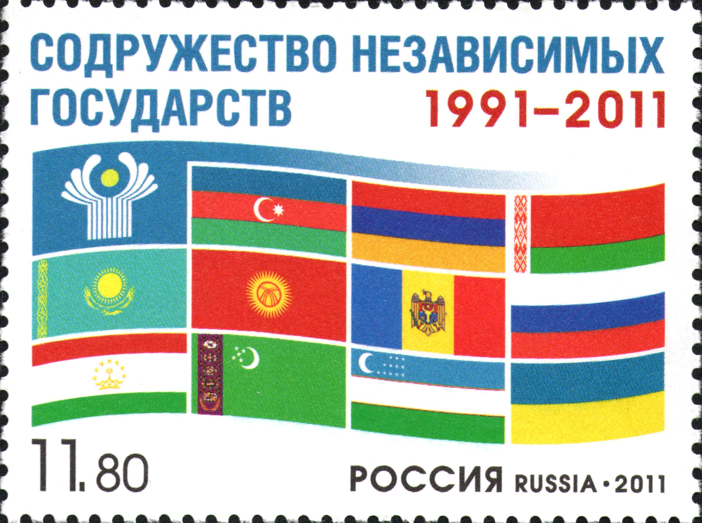 The Commonwealth of Independent States (CIS): 1991—2011. The stamp of Russia, 11.80 Rubles, 03th November 2011, Catalogue of PTC Marka # 1542. The flag of CIS, the national flags of the members of CIS.